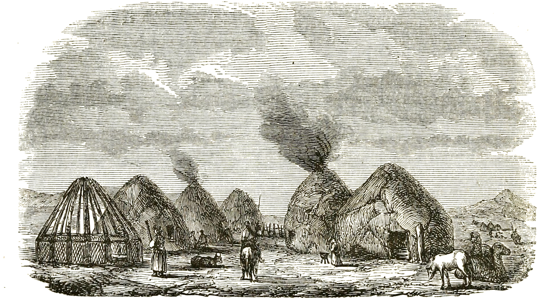 "Tartar Encampment": a small Mongol camp with horseman arriving (center) and yurt in the process of construction (left).